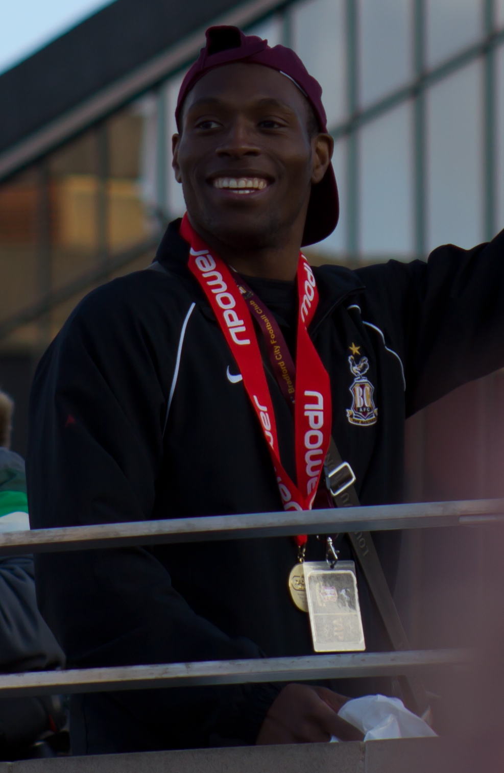 Kyel Reid. Image cropped from original at flickr.